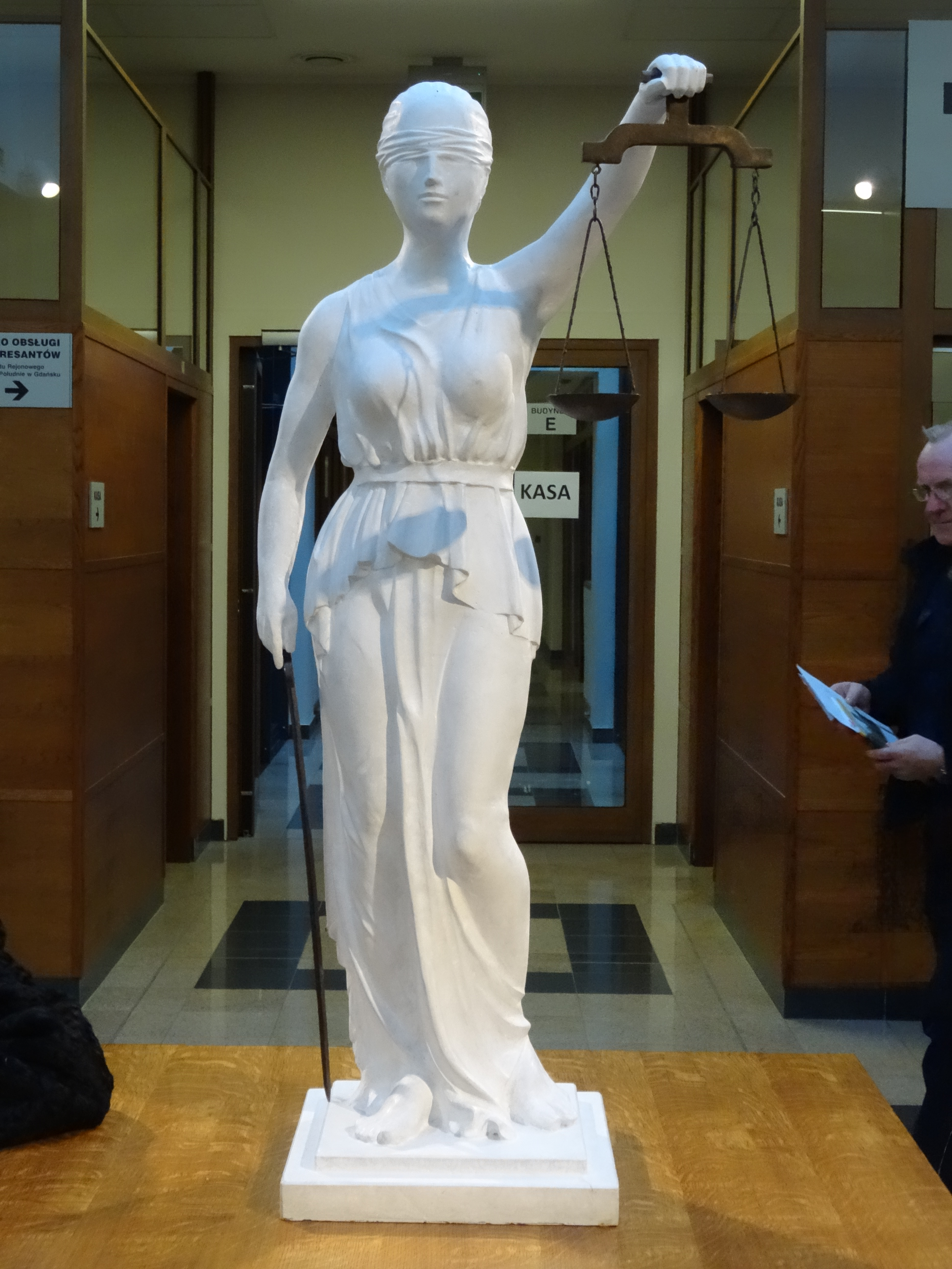 Statue of Themis, Law Courts, Gdansk, Poland